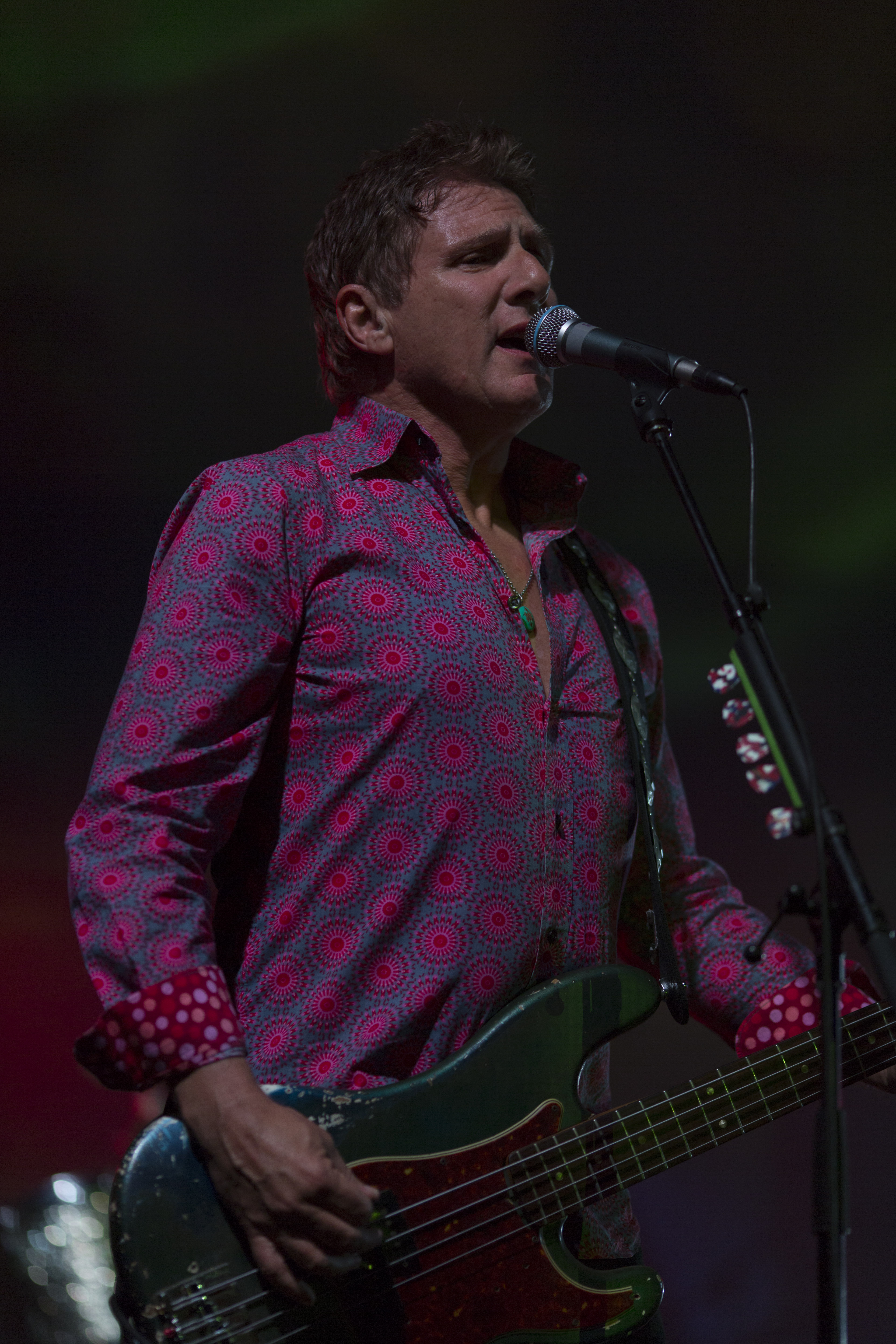 Hoodoo Gurus - Vivid - 23rd May 2015